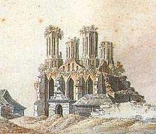 Ostroh